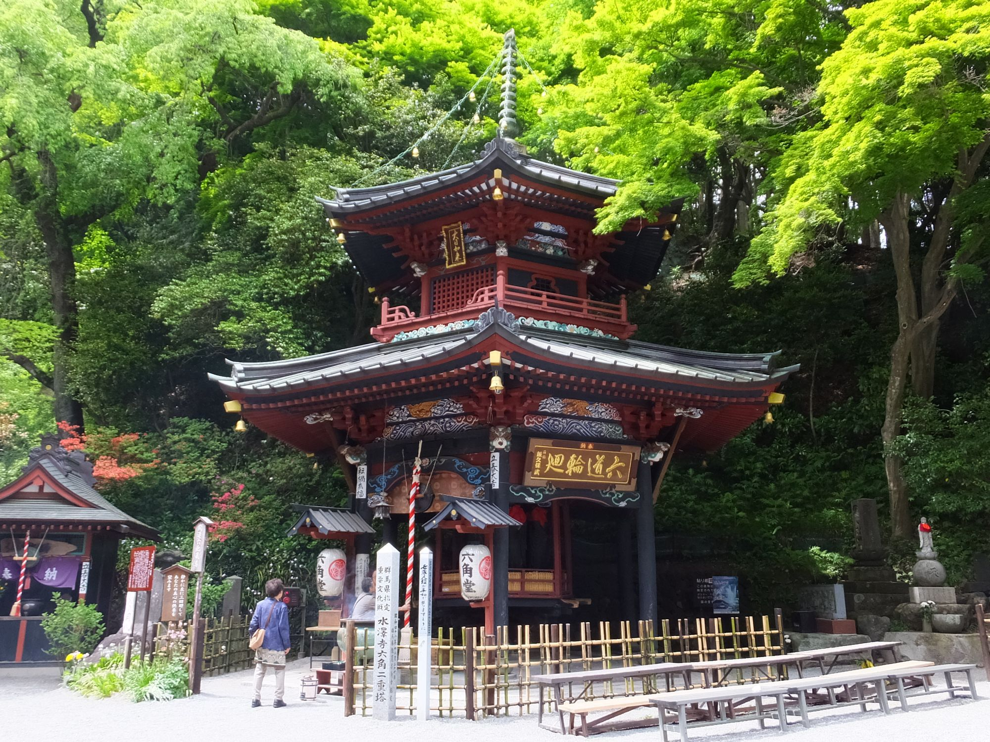 Hexagonal Pagoda of Mizusawa-dera temple in Shibukawa, Gunma